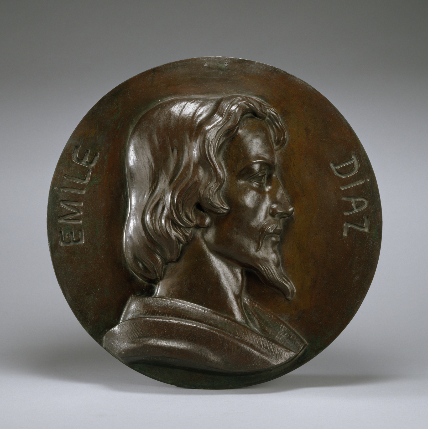 Émile Diaz (1835-60) was the son of the painter Virgile-Narcisse Diaz de la Peña (1808-76), Barye's friend and colleague in the village of Barbizon. Like his father, Émile trained to become a landscape painter; tragically, he died of tuberculosis at the age of 25. Two medallions were made: one was set in the face of Émile's tomb at the cemetery of Montmartre in Paris; the other, this piece, was presented by the grieving father to his friend and patron, Alfred Sensier.